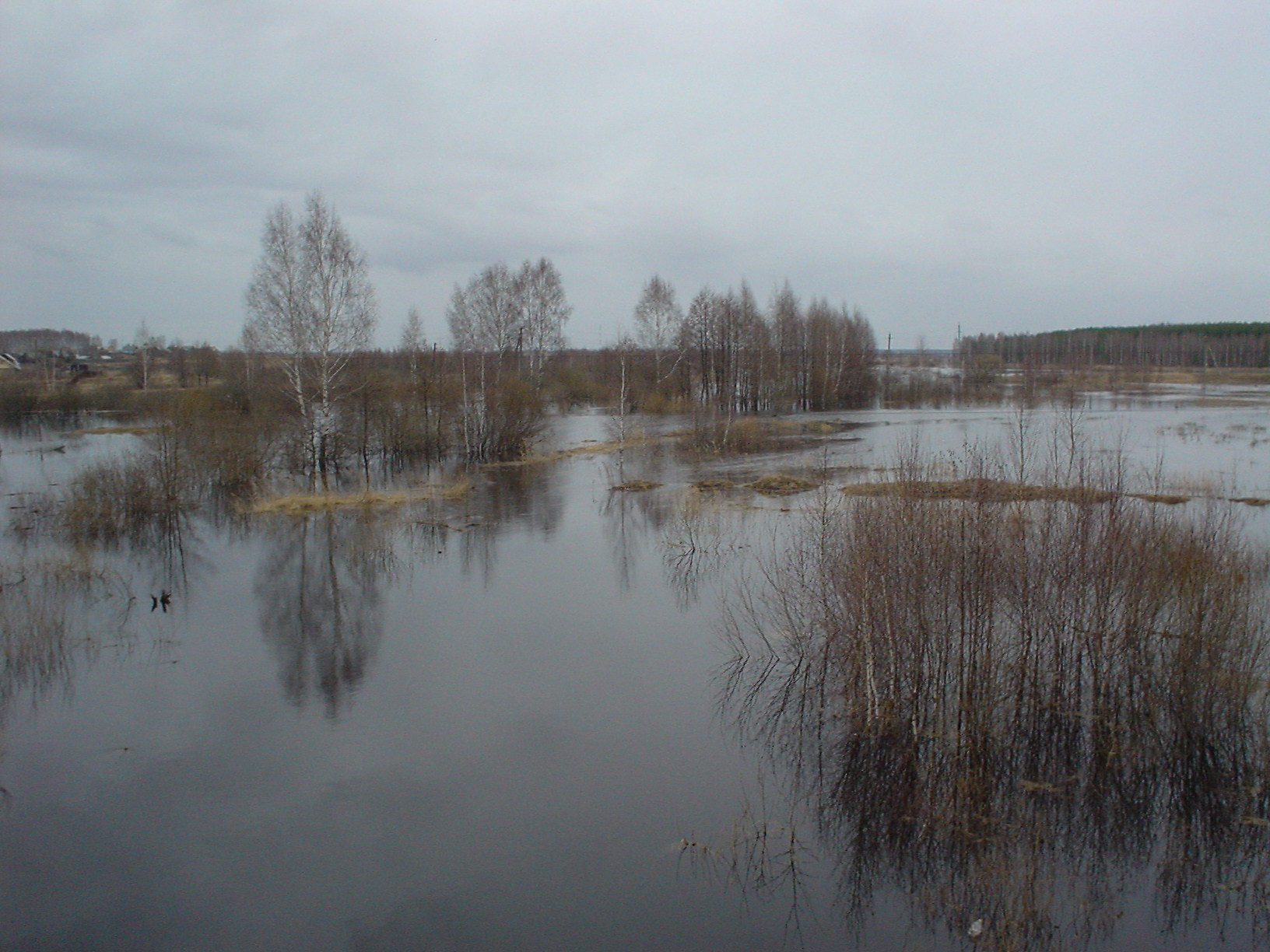 Tsna River near Kupliyam village. A view from the bridge.